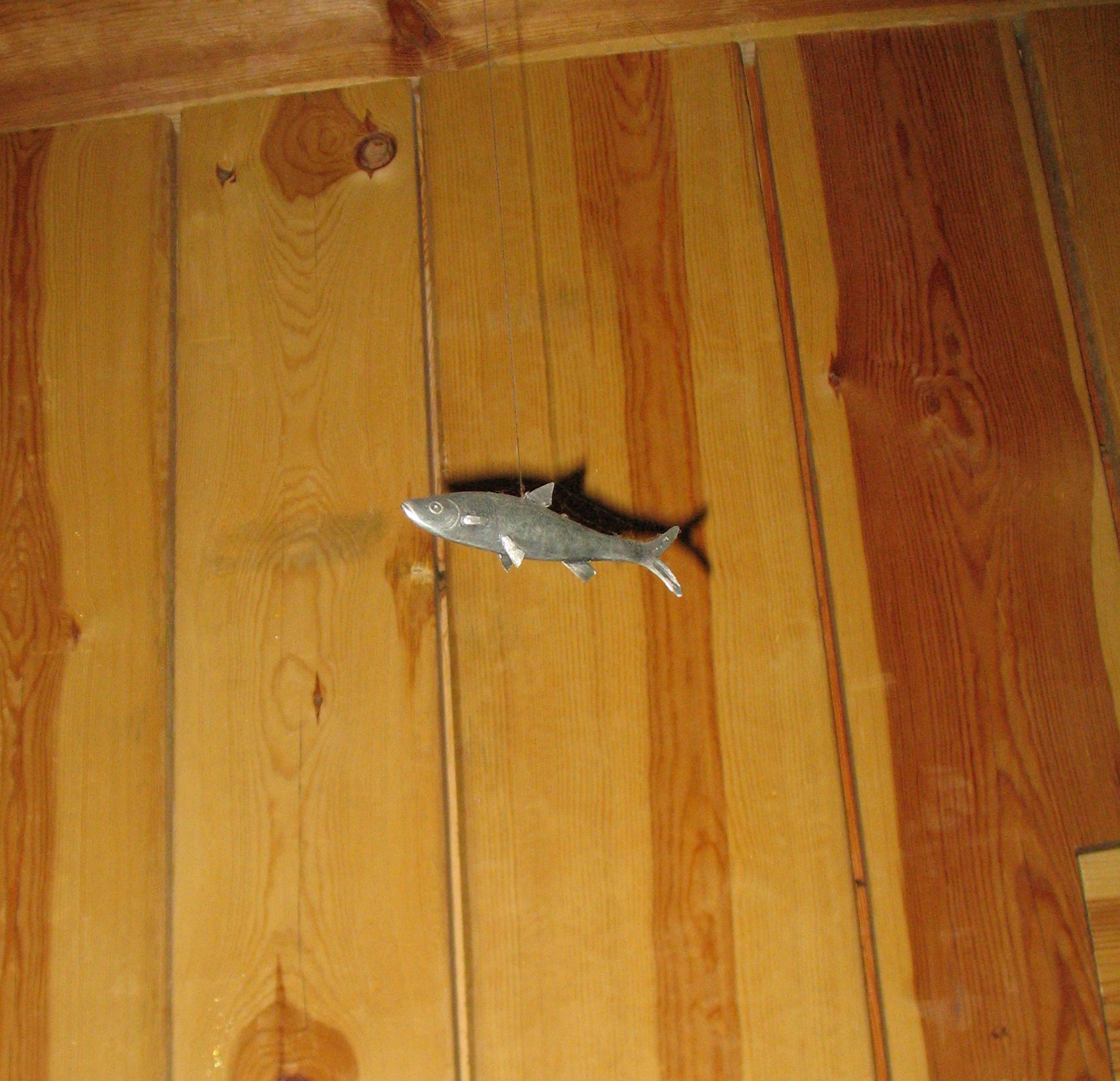 silver fish